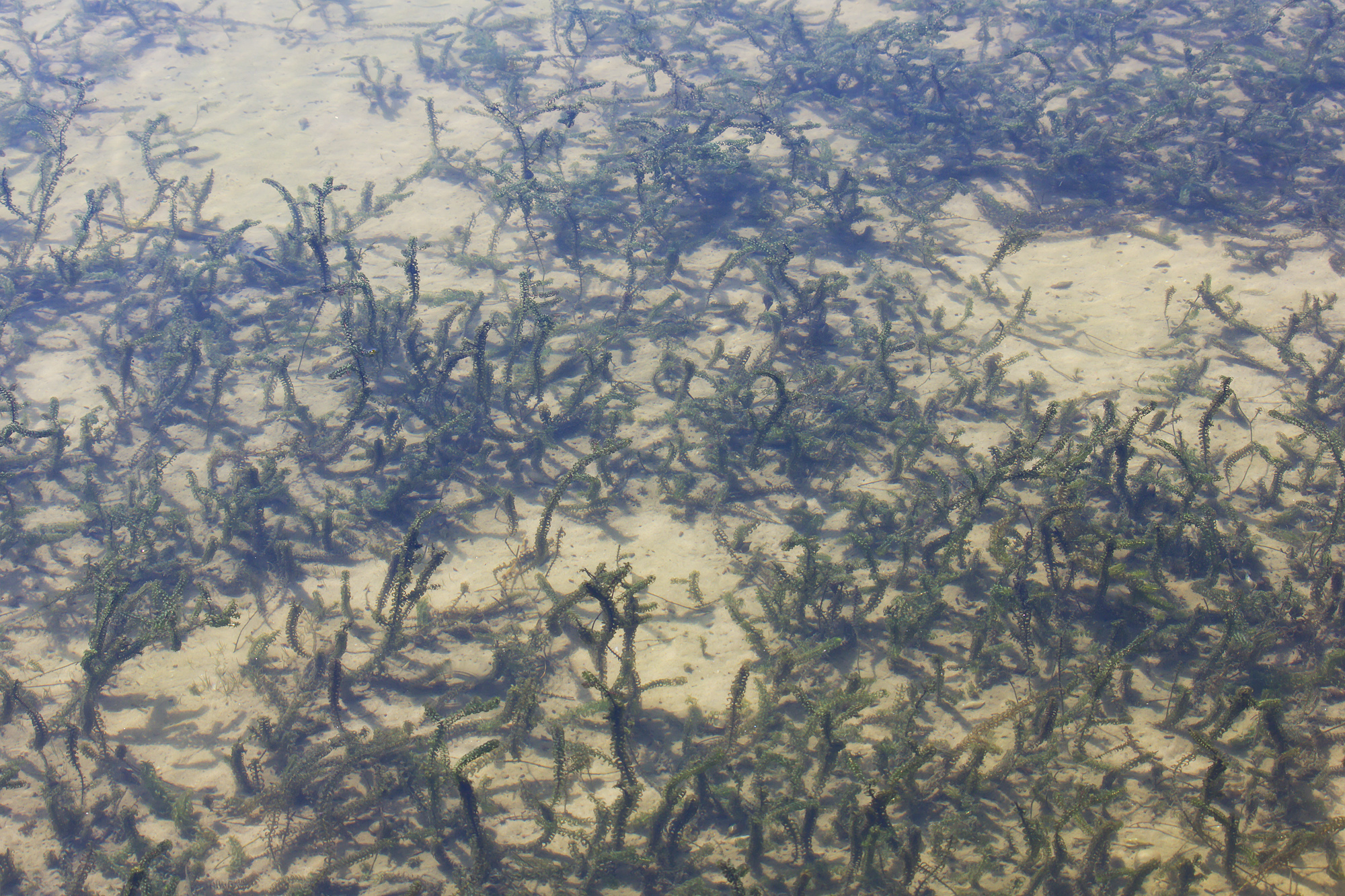 Aspect of Western Waterweed (Elodea nuttallii) on the ground of a sandy clearwater pond (gravel pit).